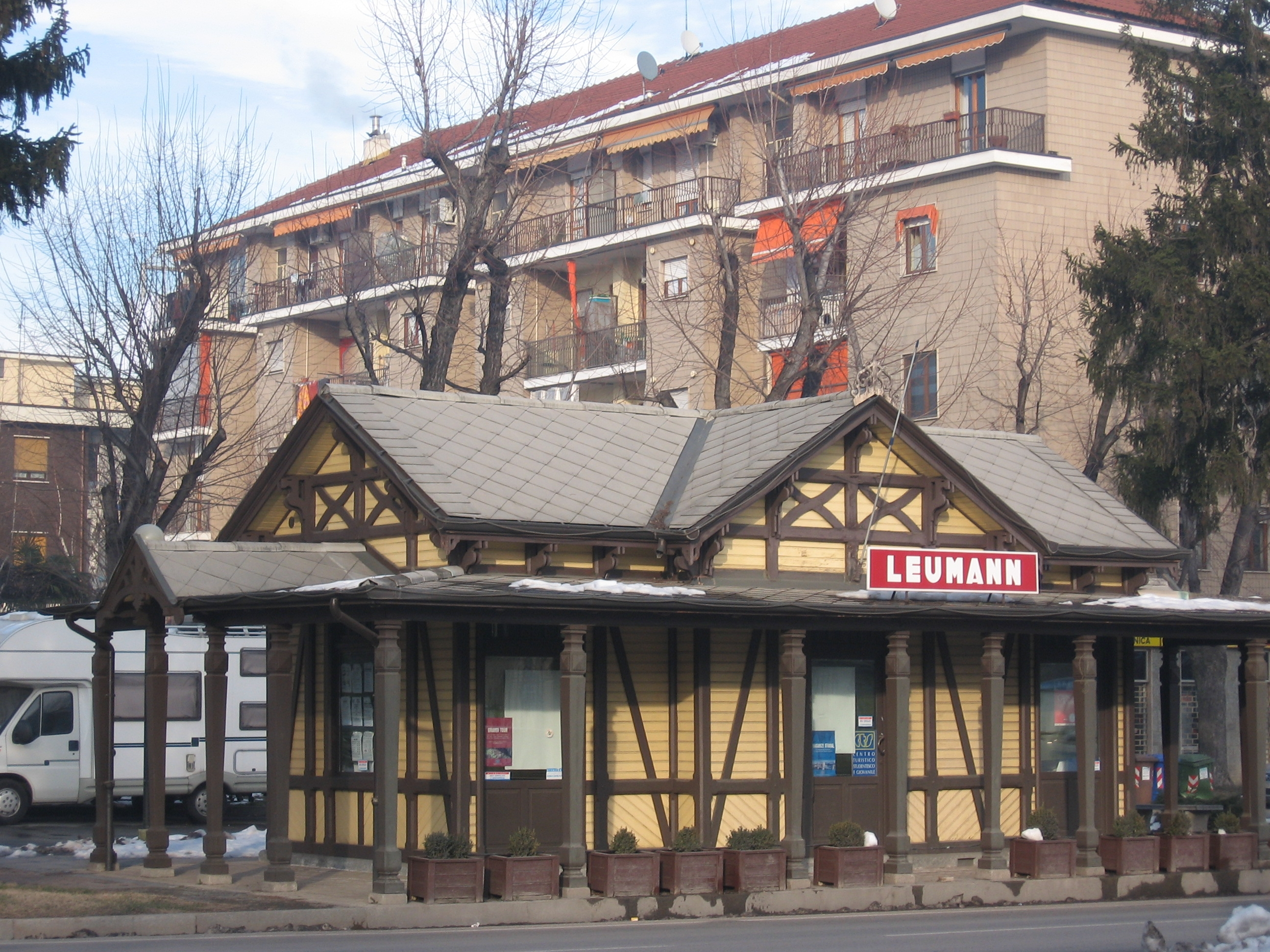 Villaggio Leumann (Collegno, TO, Italy)